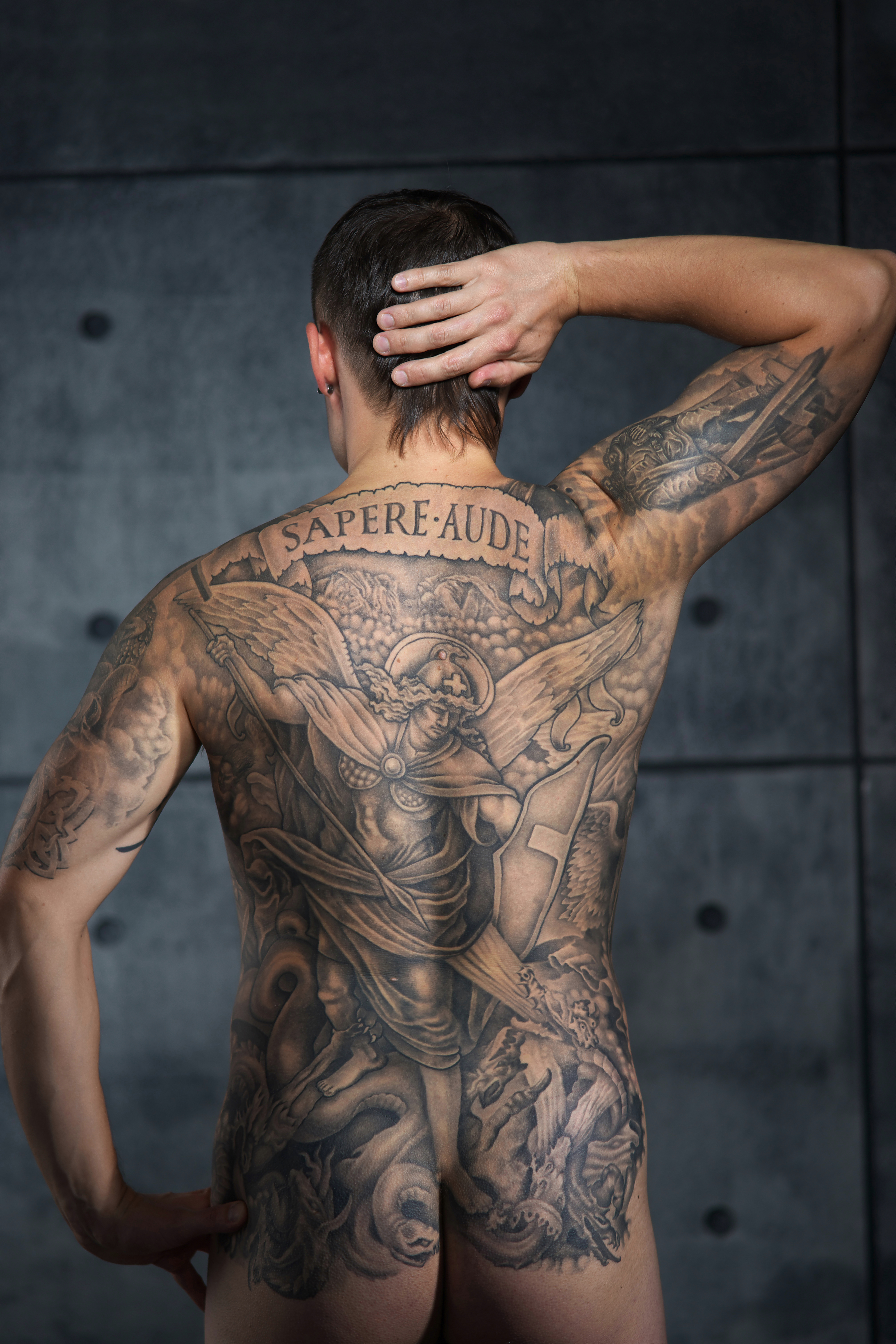 Man with a full back tattoo. Michael and the Dragon. Adapted from Die Bibel in Bildern (Revelation) engraving. Enlightenment motto "Sapere aude" is tattooed in the upper back.